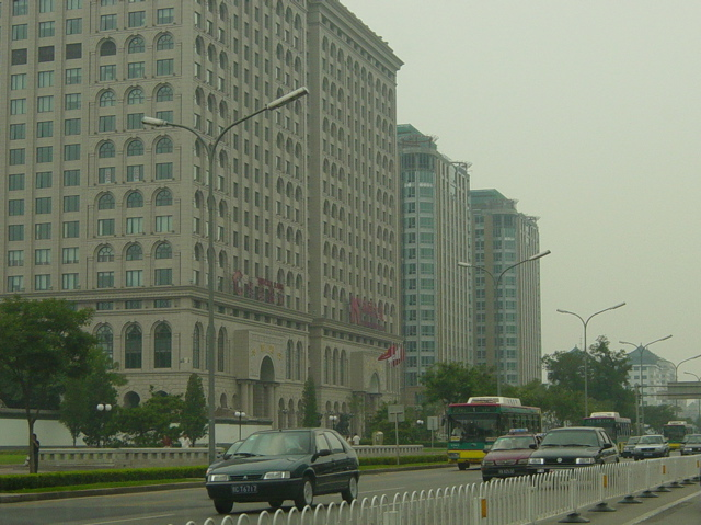 East Chang'an Avenue, Beijing (Dongchenganjie). DF08 2004 image.